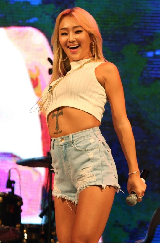 Hyolyn at Hanyang University Festival on September 24, 2014.